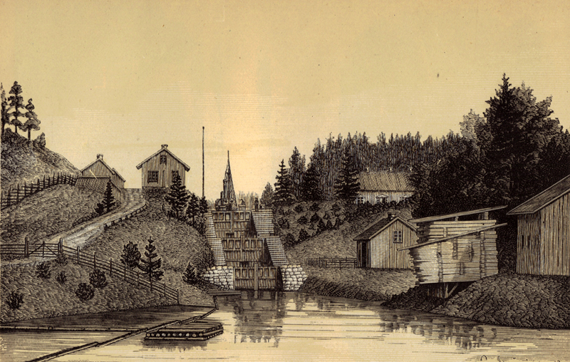 Ørje canal locks, Norway.